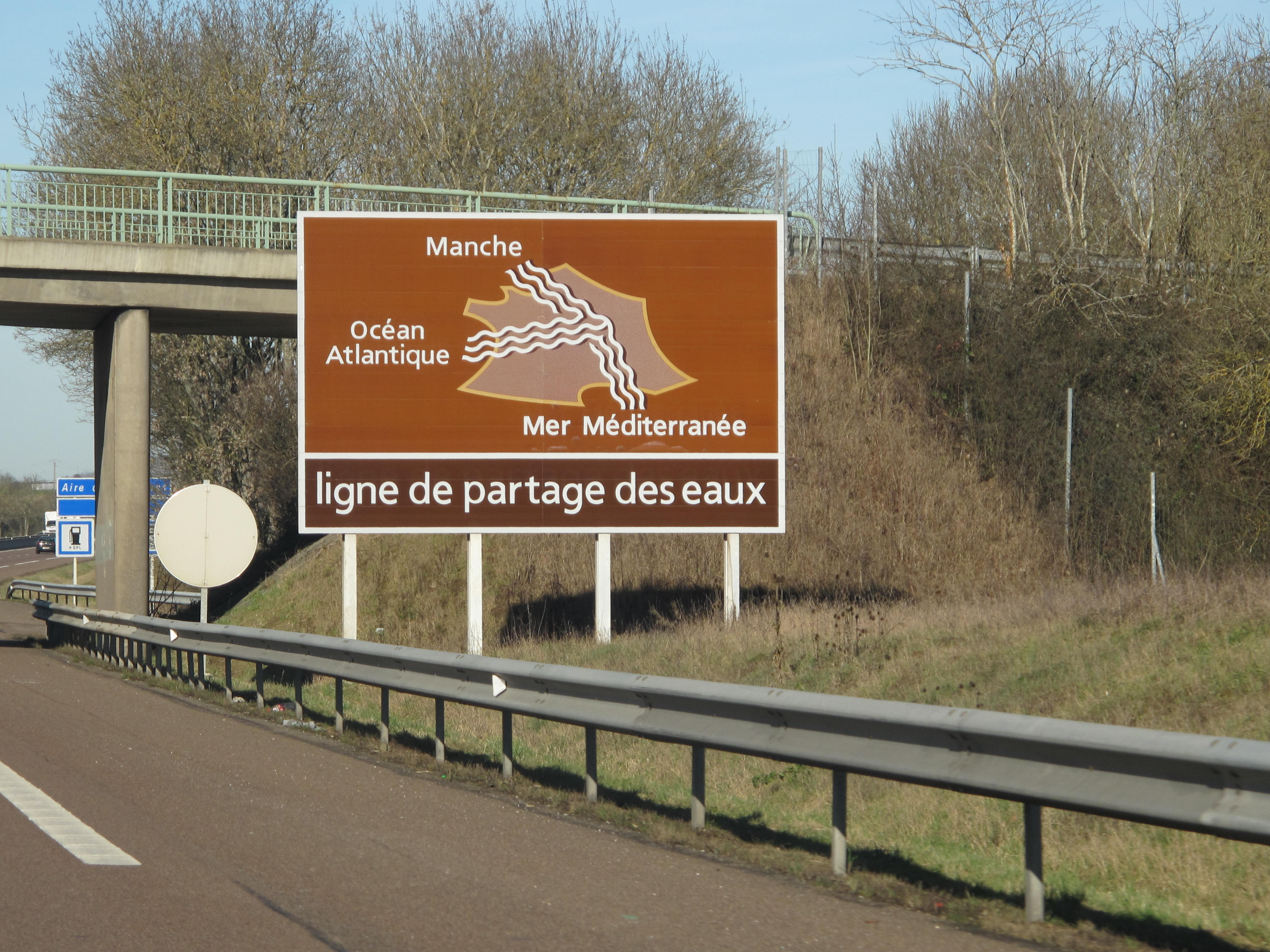 Sign on the French A6 highway announcing the drainage divide between the 3 seas that surround France. Looking north. The sign is on Maconge commune 200 m after the rest area "la Répotte", near Chateauneuf, Côte-d'Or, Burgundy, France. The bridge is that of the small road coming down from Maconge to its canal port Escommes.